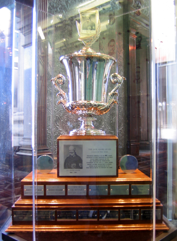 Jack Adams Award on display at the Hockey Hall of Fame in Toronto. The award is presented to the NHL's coach of the year. Taken by Kmf164 on November 19, 2005.